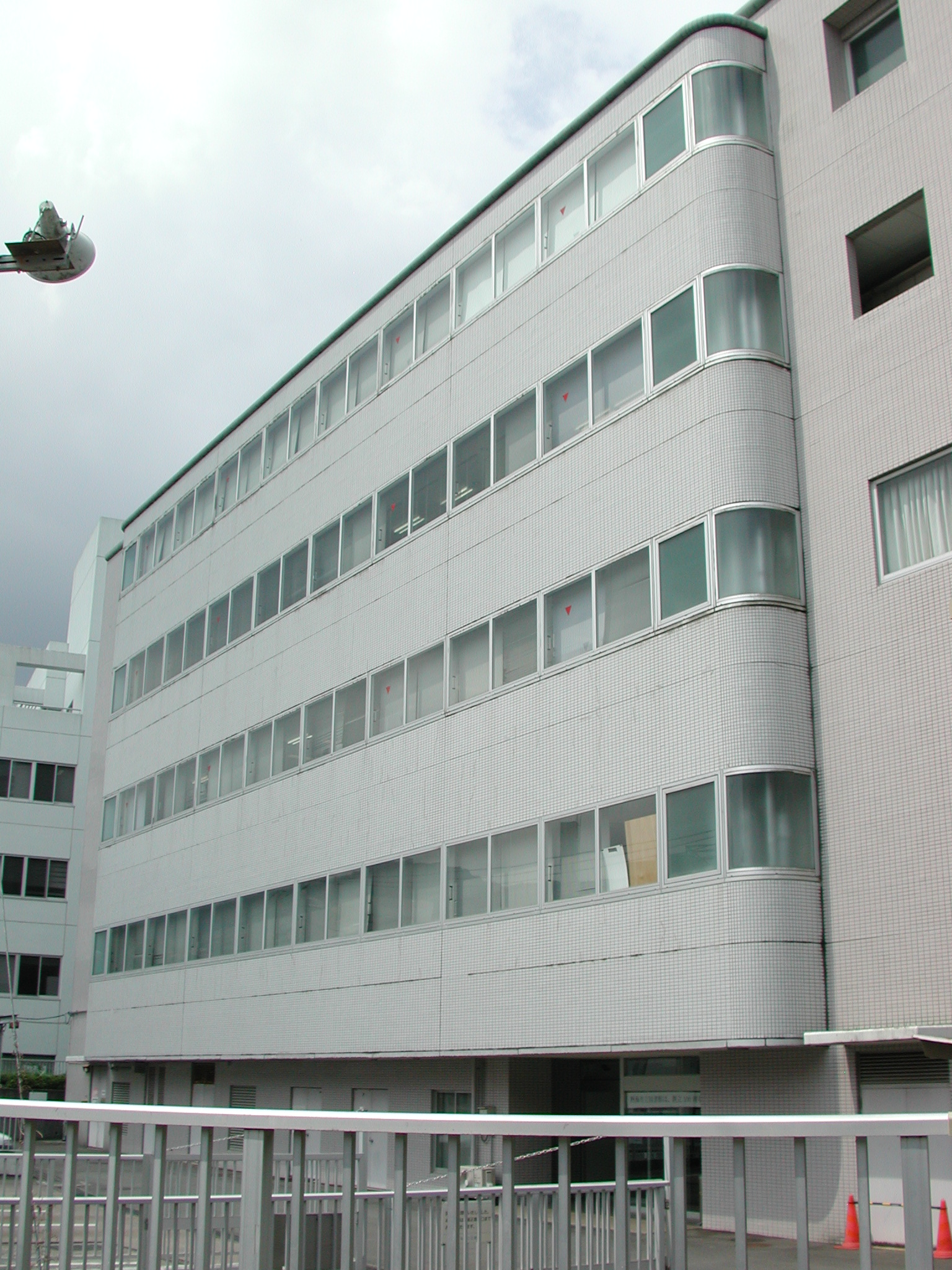 Toden Atami service office